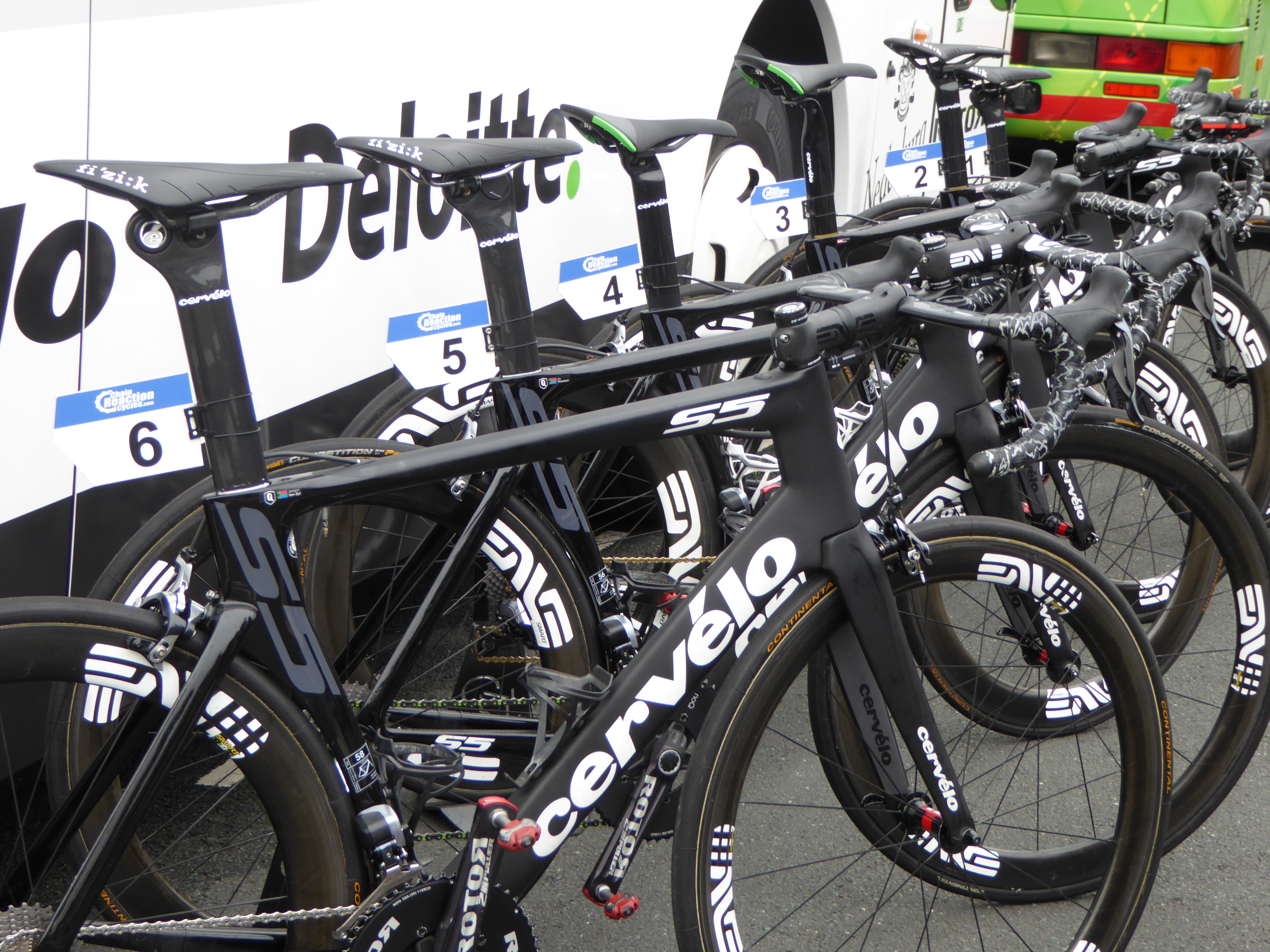 The Cervélo bikes of Team Dimension Data, pictured before Stage 2 of the 2016 Tour of Britain in Carlisle on 5 September 2016.